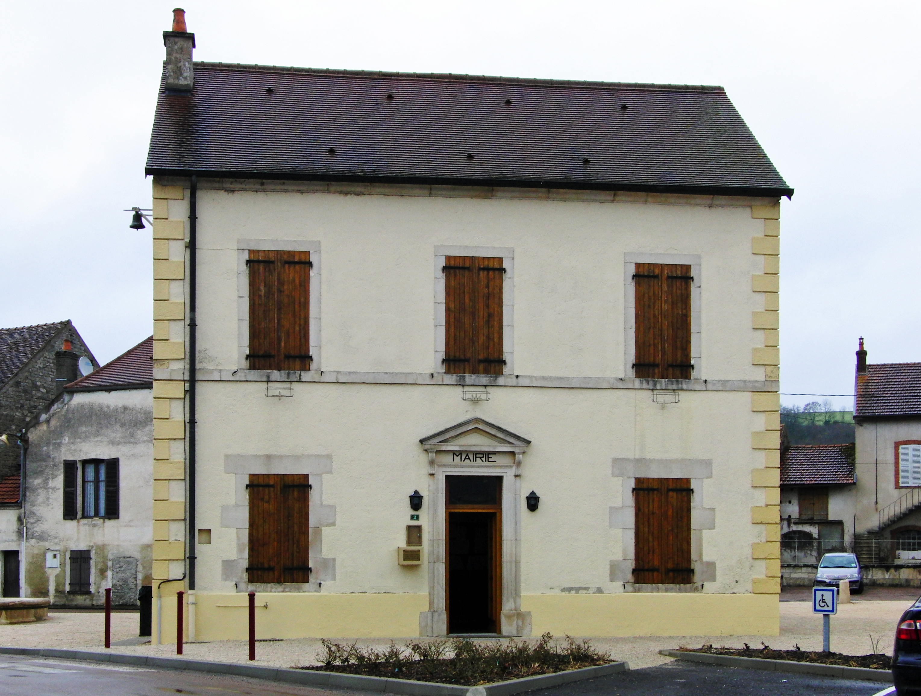 Marmagne (Côte-d'Or department, France): city hall